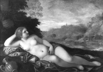 Reclining Nude in a Landscape probably original companion to the Rokeby Venus